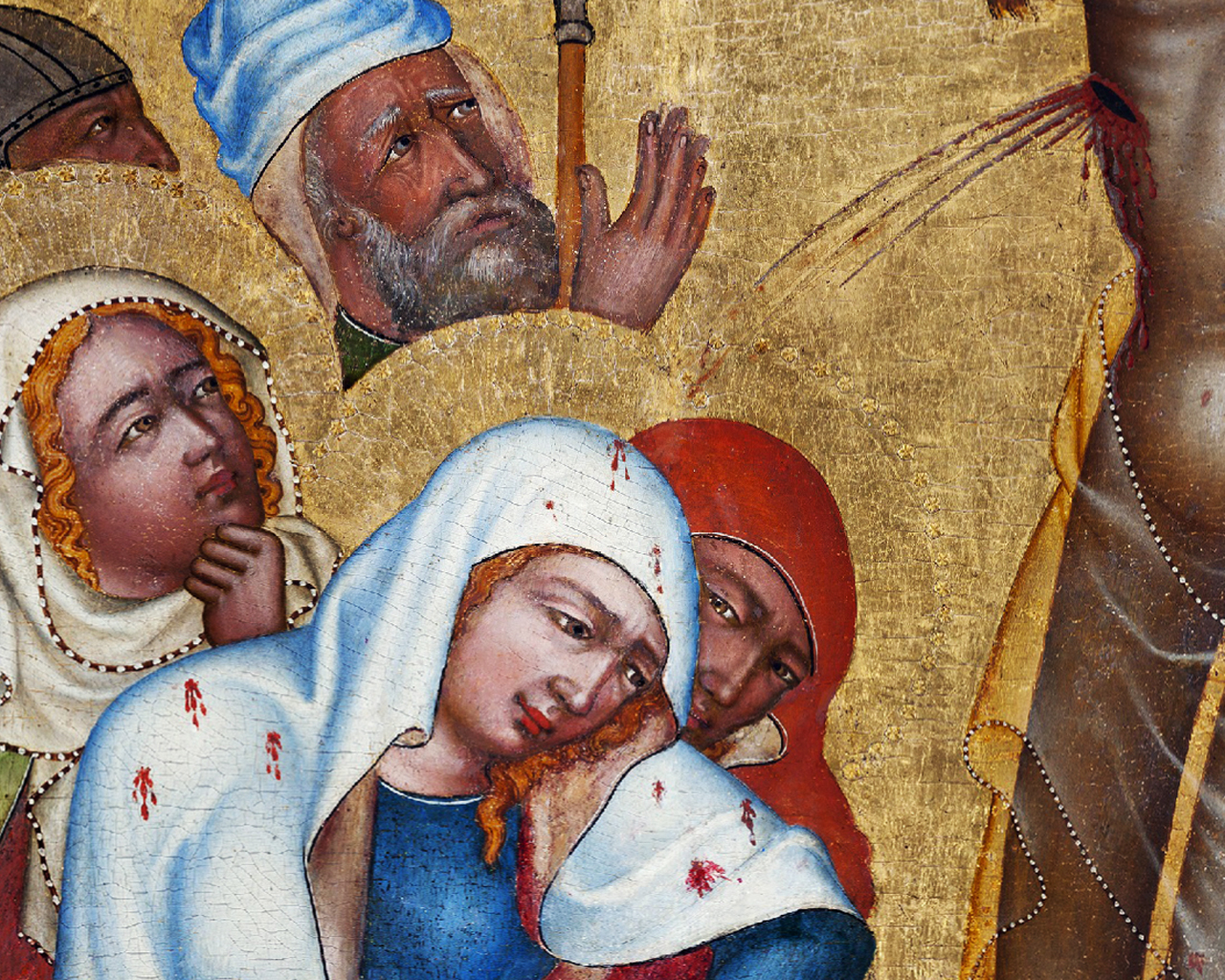 Hohenfurth Altarpiece - Crucifixion (detail), National Gallery in Prague